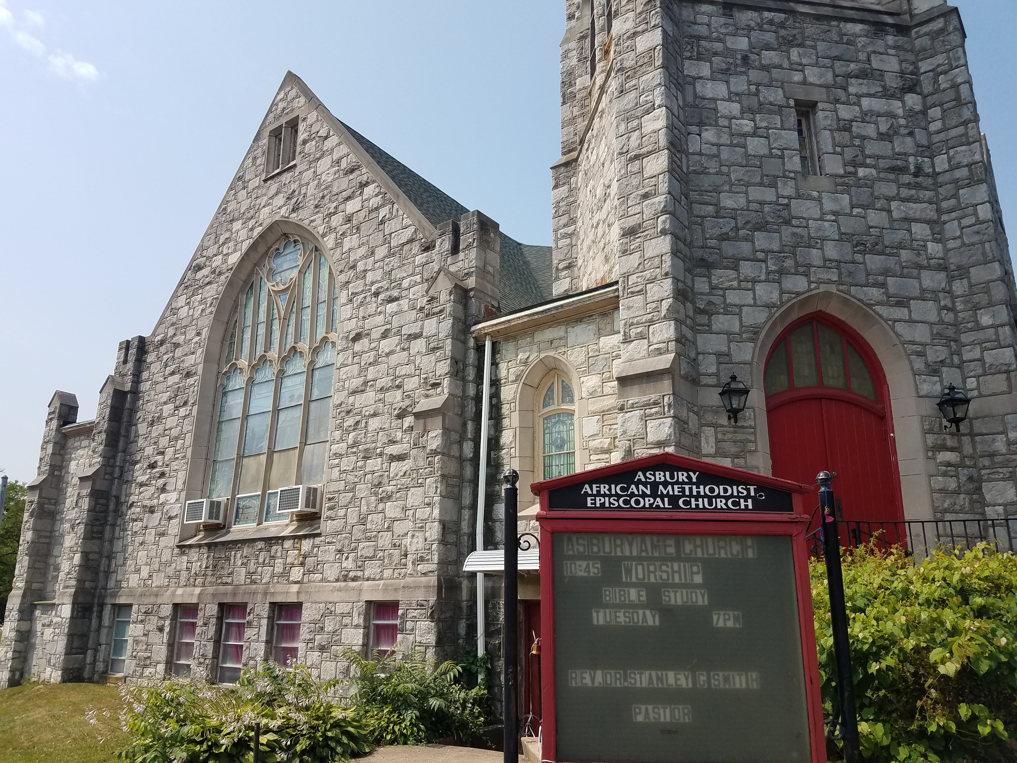 Photo of Asbury African Methodist Episcopal Church taken on July 3, 2018